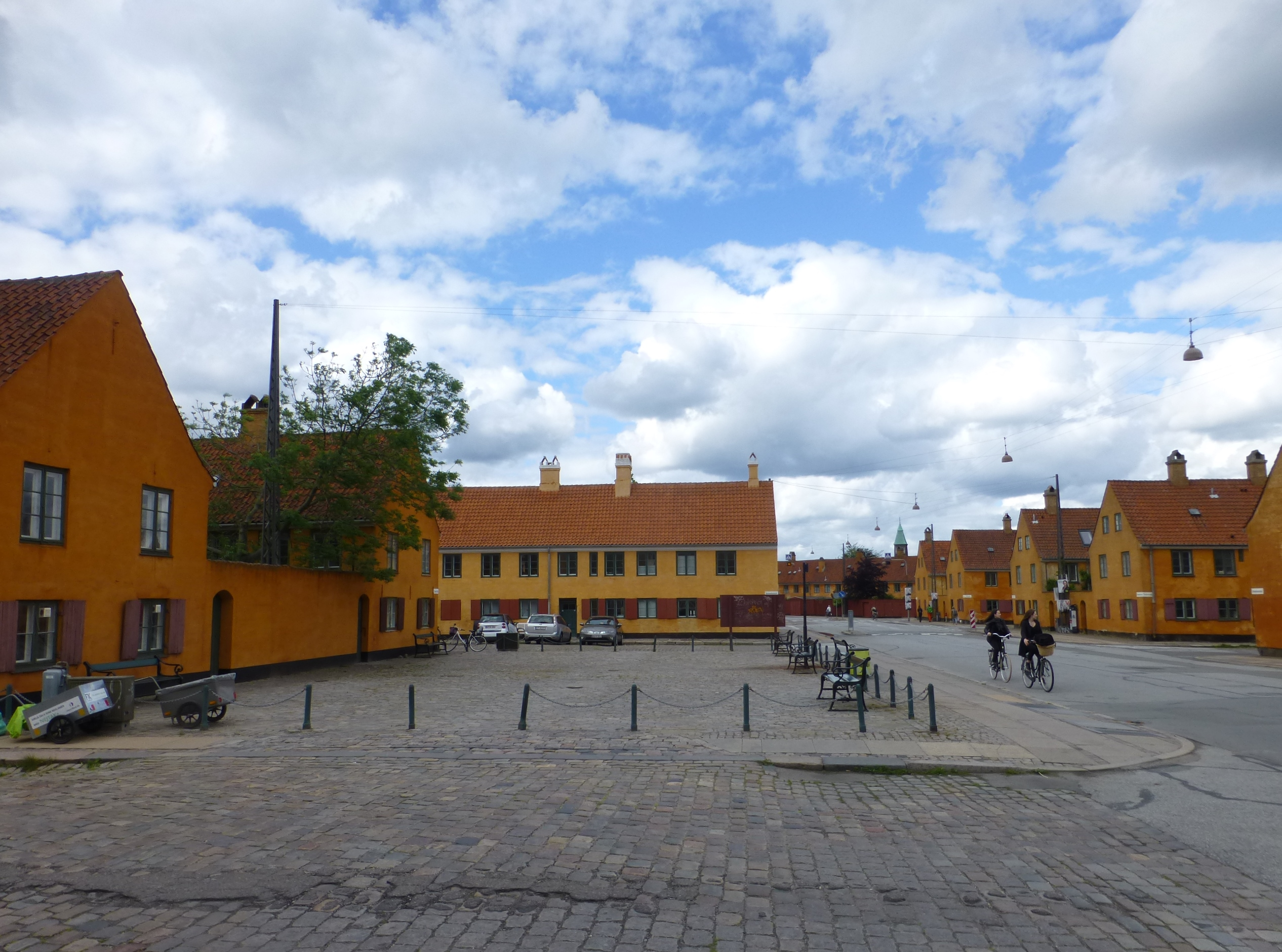 The square Nyboder Plads in the area Nyboder in Indre By in Copenhagen.